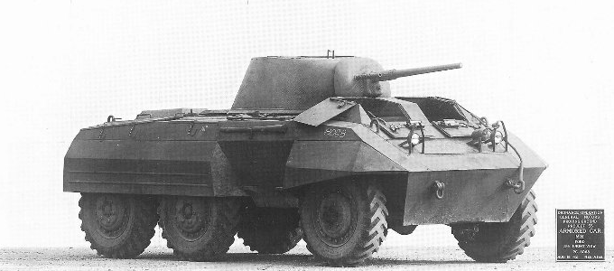 Armored Car T22E1 (M8) early pilot